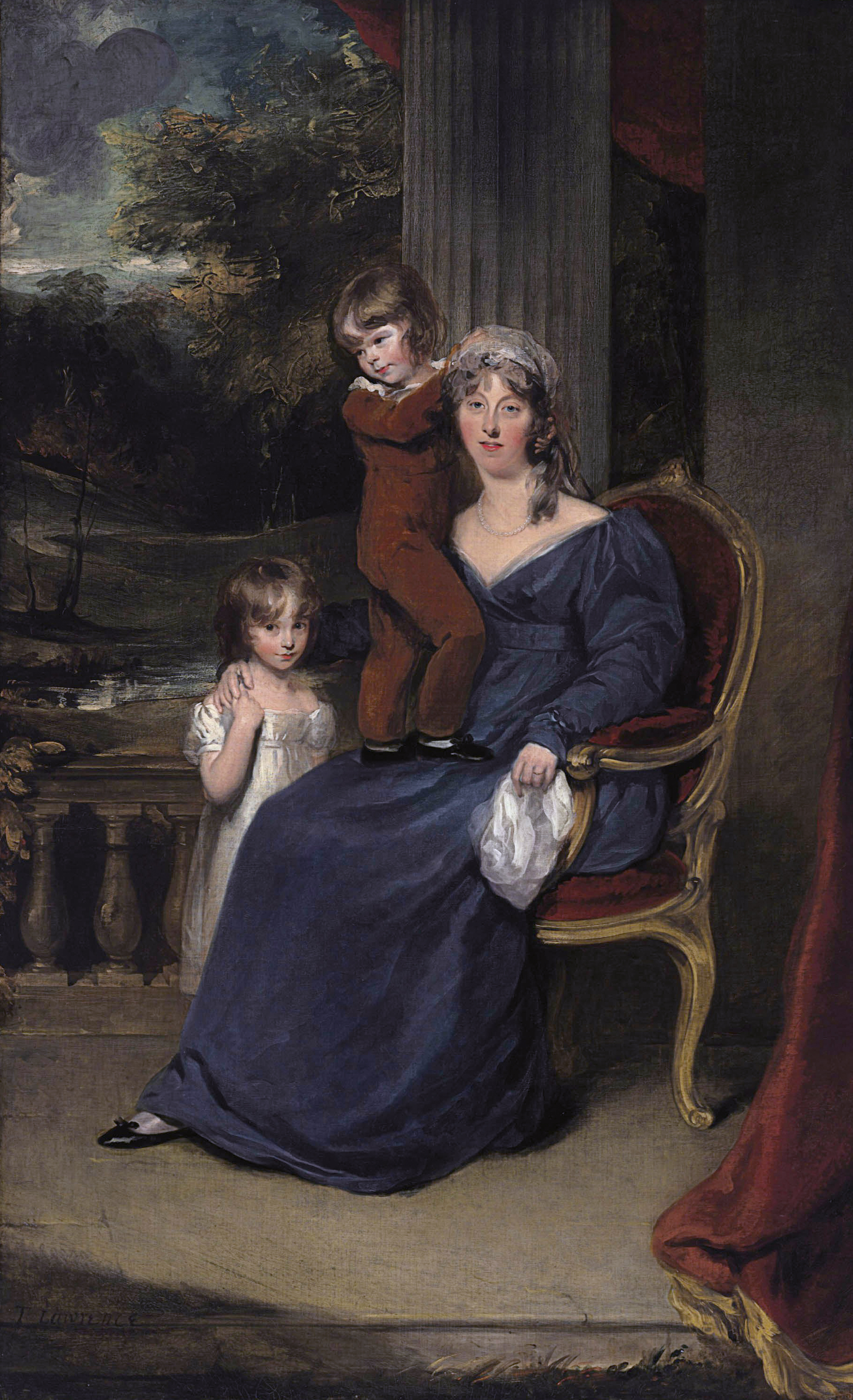 Lady Louisa Harvey, full-length, and her children Edward and Louisa